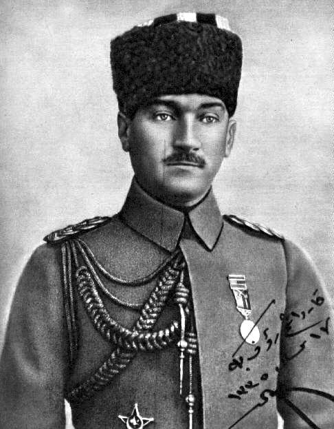 The portrait of Mustafa Kemal Pasha, that was presented for Rauf Bey on April 17, 1919. Kemal Atatürk (or alternatively written as Kamâl Atatürk, Mustafa Kemal Pasha until 1934, commonly referred to as Mustafa Kemal Atatürk; 1881 – 10 November 1938) was a Turkish field marshal, revolutionary statesman, author, and the founding father of the Republic of Turkey, serving as its first President from 1923 until his death in 1938. He undertook sweeping progressive reforms, which modernized Turkey into a secular, industrial nation. Ideologically a secularist and nationalist, his policies and theories became known as Kemalism. Due to his military and political accomplishments, Atatürk is regarded as one of the most important political leaders of the 20th century.